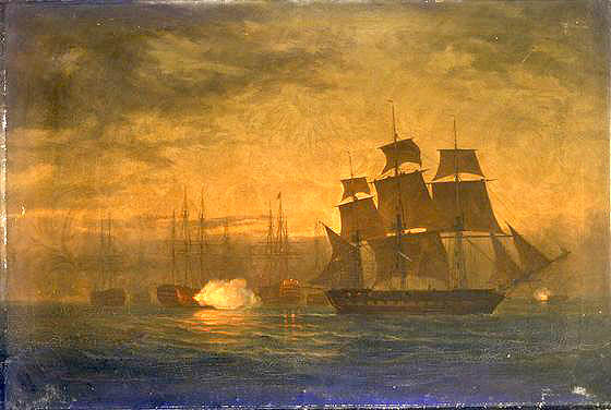 Escape of HMS 'Clyde' from the Nore mutiny, 30 May 1797 The 'Clyde', in starboard-broadside view, is sailing on the starboard tack and occupying the right-hand side of the picture. Beyond her stern and to the left is the 'Sandwich', port-quarter view, with the red flag of mutiny at her main and her riding lights lit. To the left of the 'Sandwich', in starboard-quarter view, is a two-decker firing one of her after upper-deck guns. Other ships lie at anchor beyond her and in the right background, under 'Clyde's' jib-boom, is a frigate firing a gun from her port tier. The painting is one of two commemorating the Clyde's escape from the Nore under her captain, Charles Cunningham. The second shows her arriving at Sheerness the following morning.